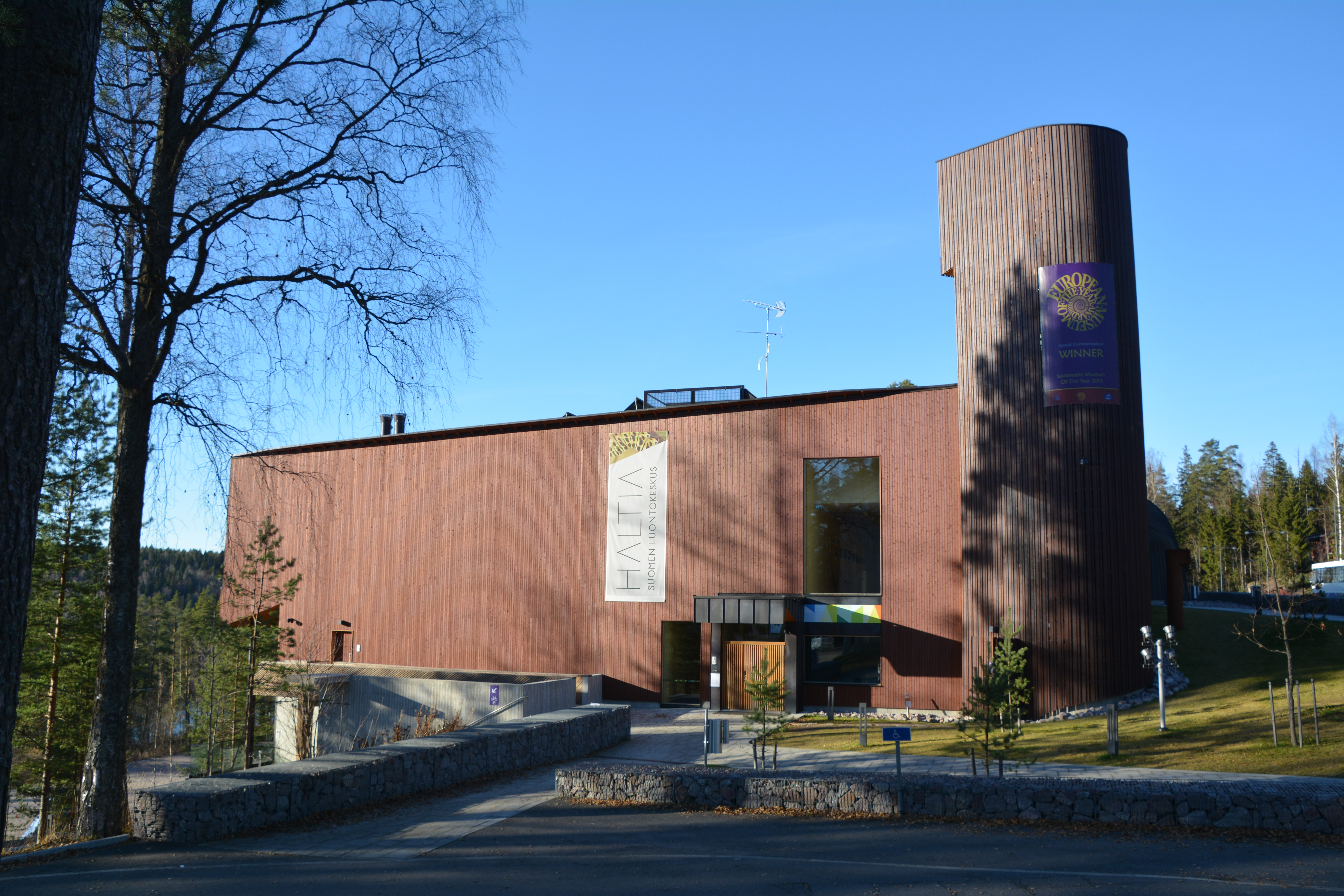 Finland's Nature Centre Haltia, Noux National Park, Espoo. View from southwest